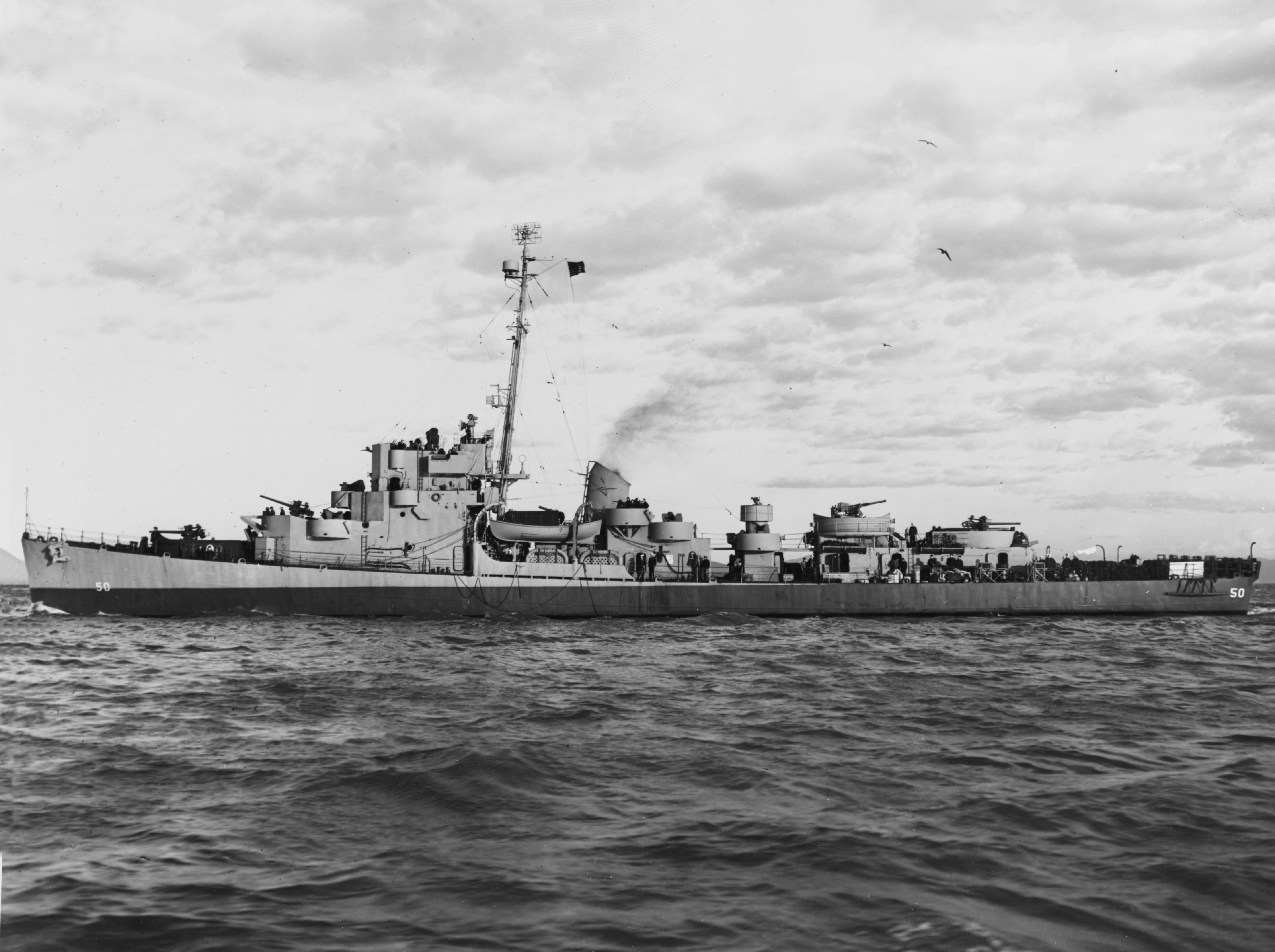 The U.S. Navy destroyer escort USS Engstrom (DE-50) underway off the Mare Island Naval Shipyard, California (USA), on 27 February 1945. She was under overhaul at Mare Island from 19 January until 27 February 1945.